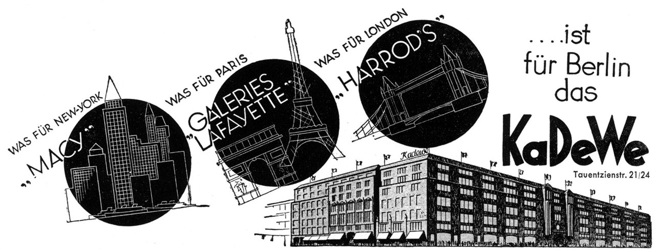 Newspaper advertisement of the german warehouse "Kaufhaus des Westens" (KaDeWe) in Berlin